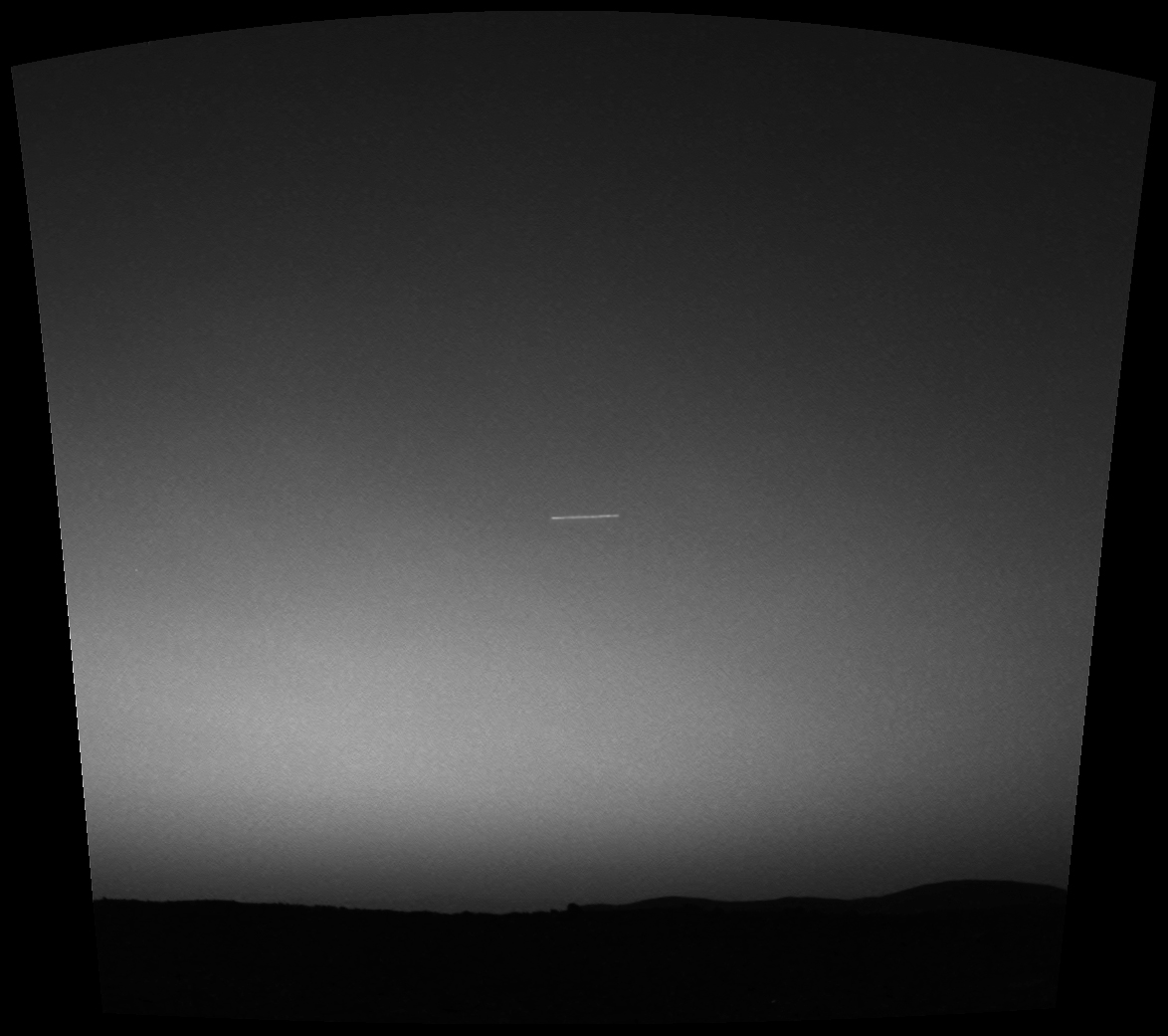 This is an image of what is now believed to be the first meteor photographed on Mars. The image was taken by Mars rover Spirit on March 7, 2004 (Sol 63), at 04:50:19 local time (LST), with an exposure time of 15 seconds. Analysis published in the June 2, 2005 issue of Nature indicates that this was likely a meteor from a Martian meteor shower whose parent body is comet 114P/Wiseman-Skiff and whose radiant is in the constellation Cepheus. Because of the long exposure time, another possibility originally considered was that this could have been the Viking 2 Orbiter rather than a meteor.